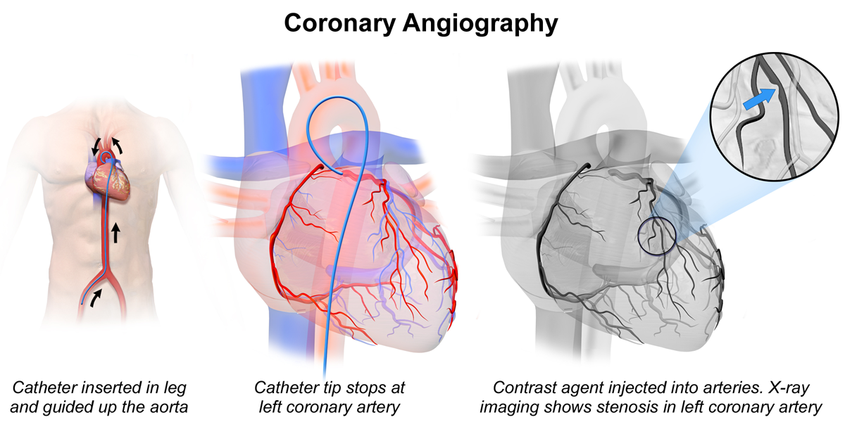 Coronary Angiography. See a full animation of this medical topic.